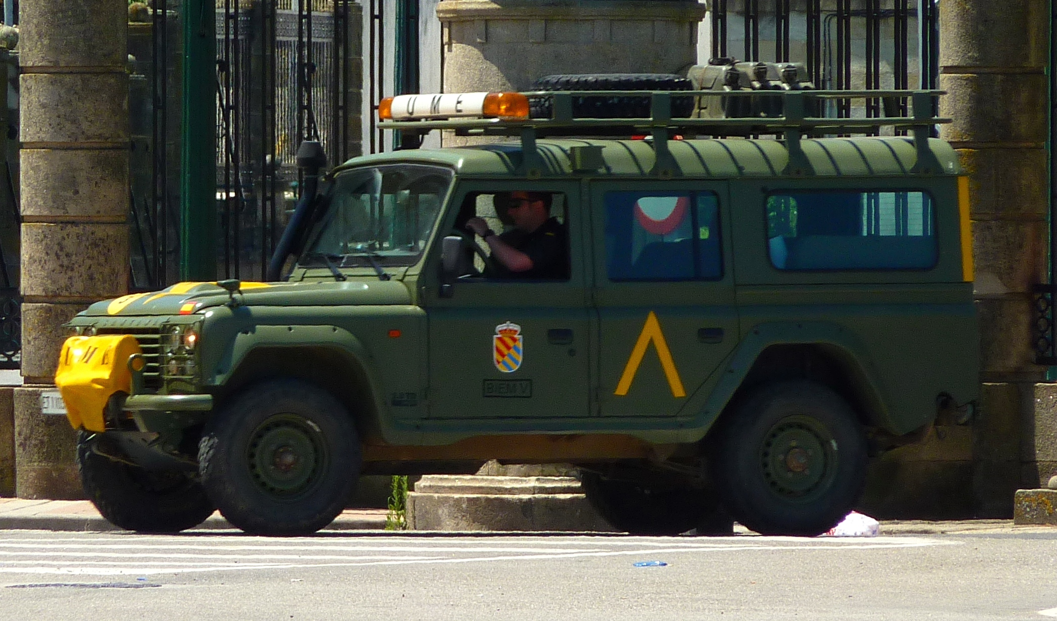 Spanish Military Emergency Unit Santana Aníbal.